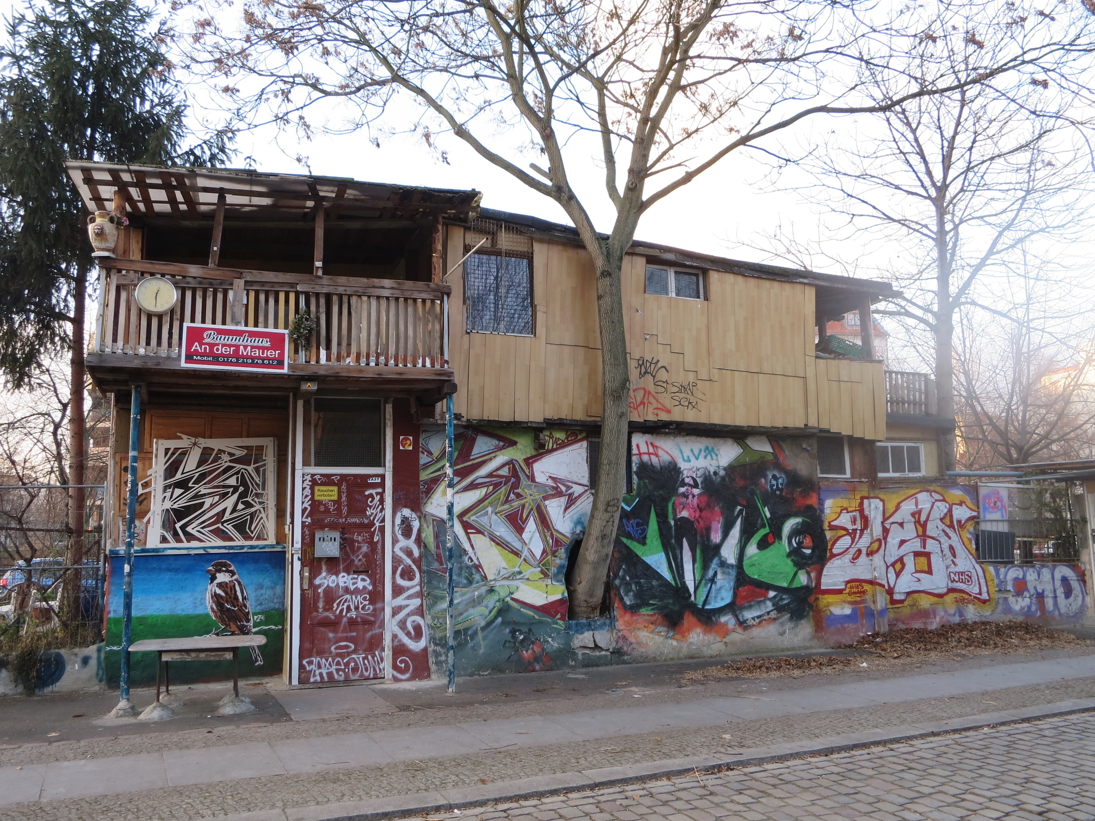 Treehouse on the Wall